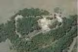 Harilaq Hill